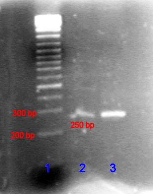 PCR product compared with DNA ladder in agarose gel. DNA ladder (lane 1), the PCR product in low concentration (lane 2), and high concentration (lane 3). Image published with permission of Helmut W. Klein, Institute of Biochemistry, University of Cologne, Germany